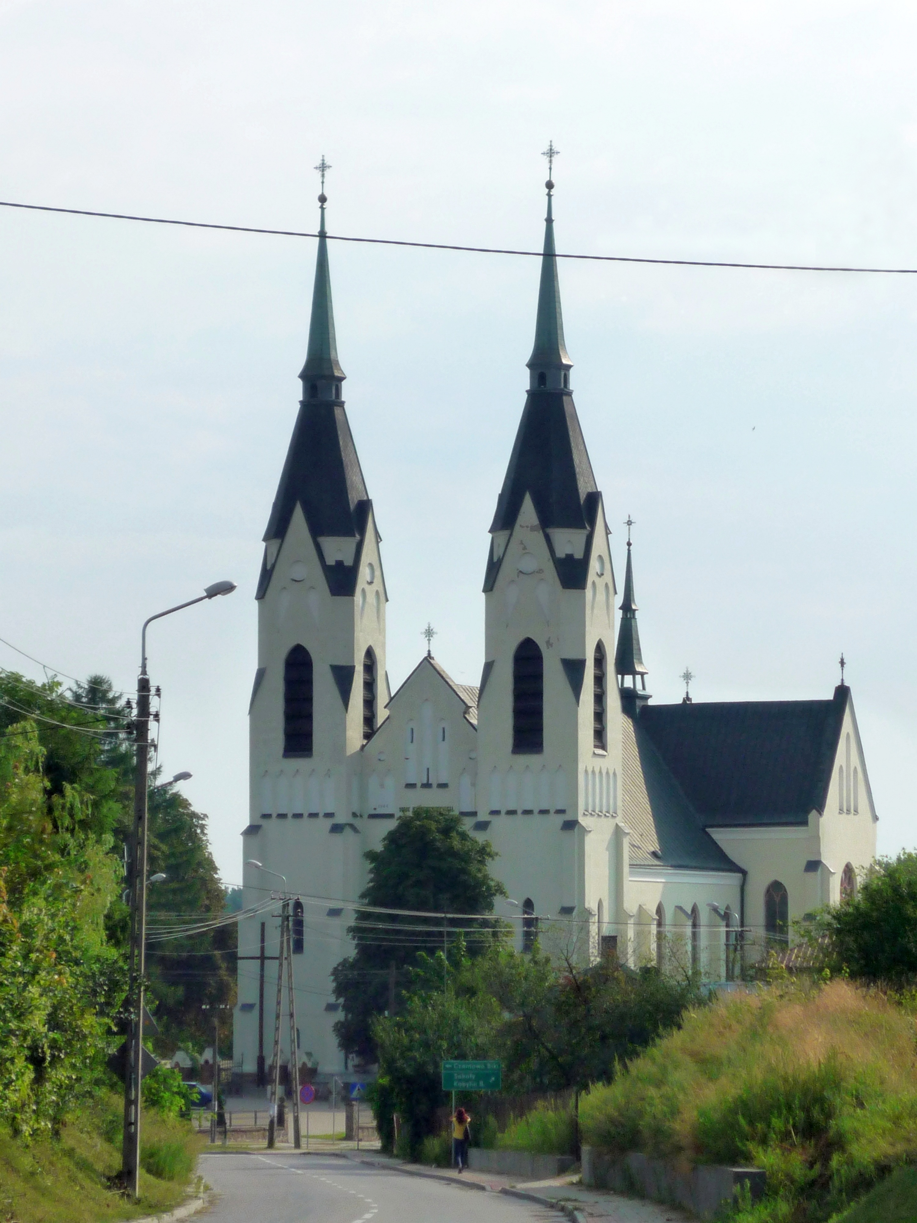 Parish church of St. Bartholomew in Kulesze Kościelne, seen from the local road